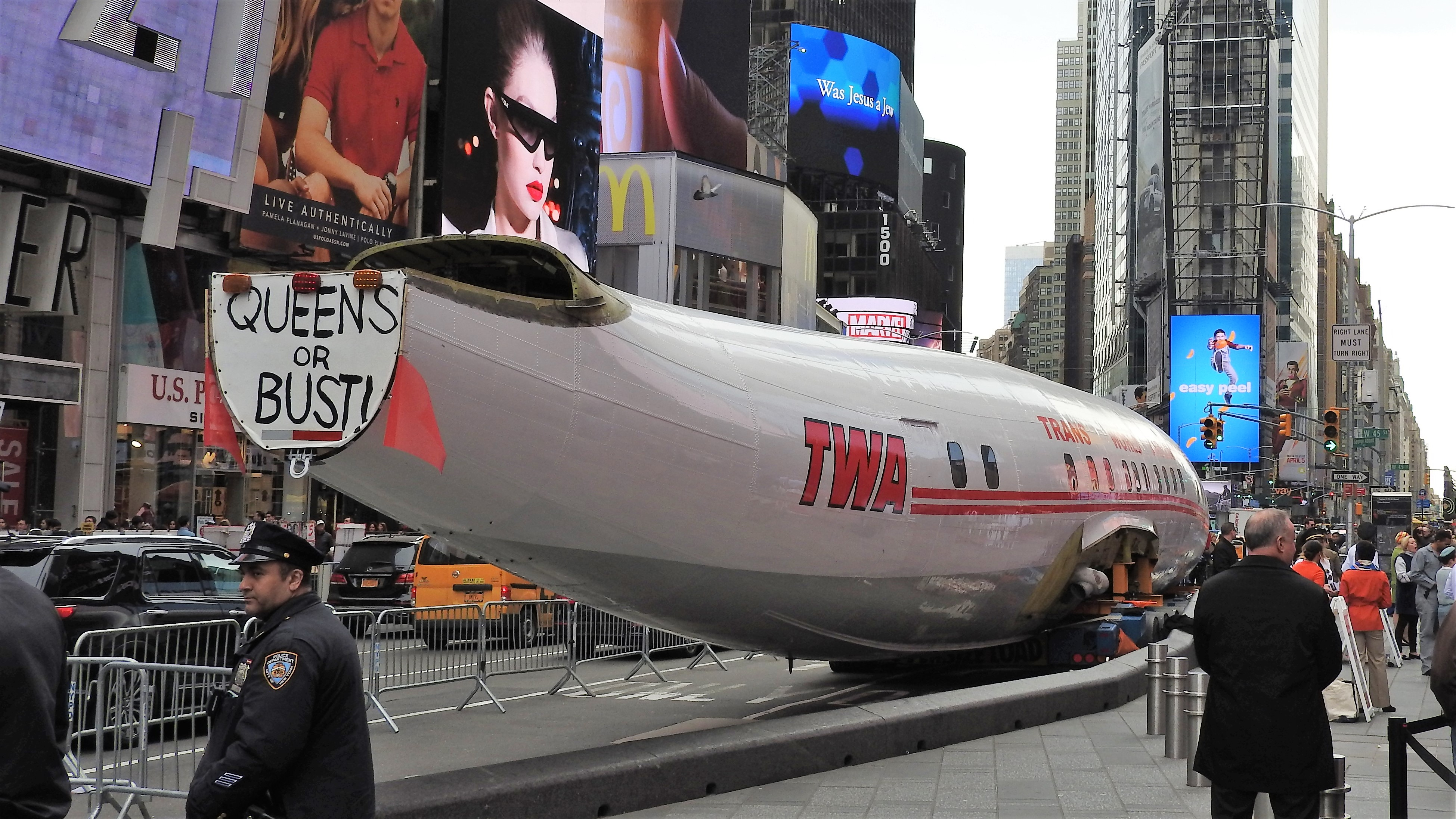 Looking south from 46th Street at tail and starboard side of airplane in Times Square